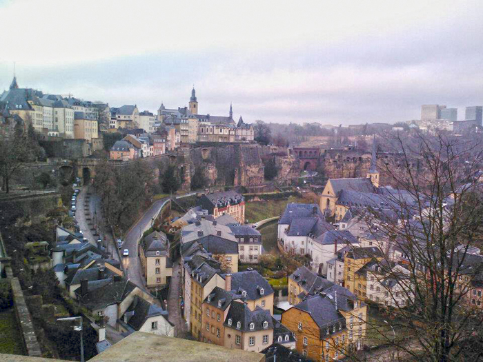 View of Luxembourg city and valley from constitutional court.